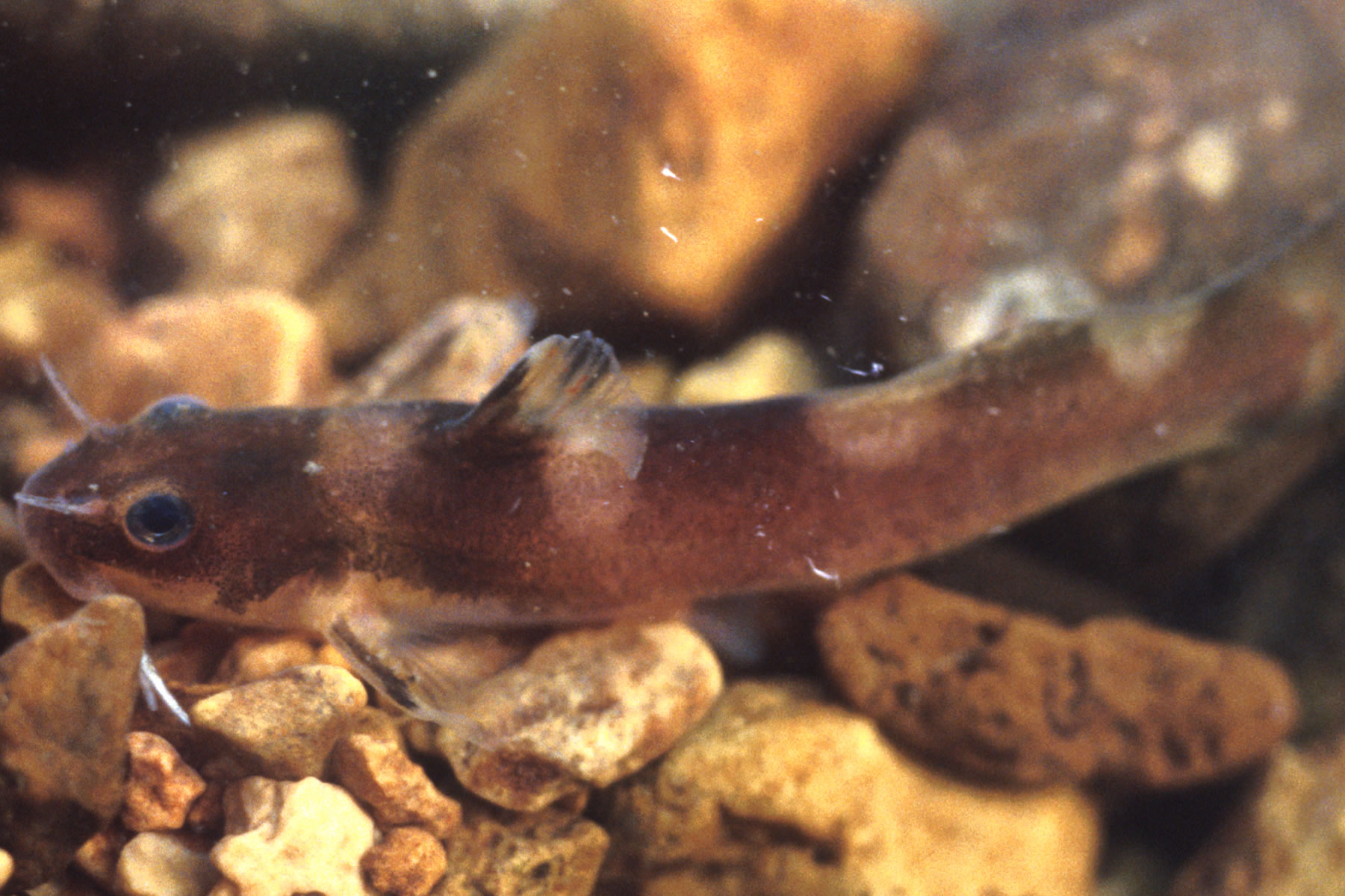 Saddled madtom Noturus fasciatus USFWS photo